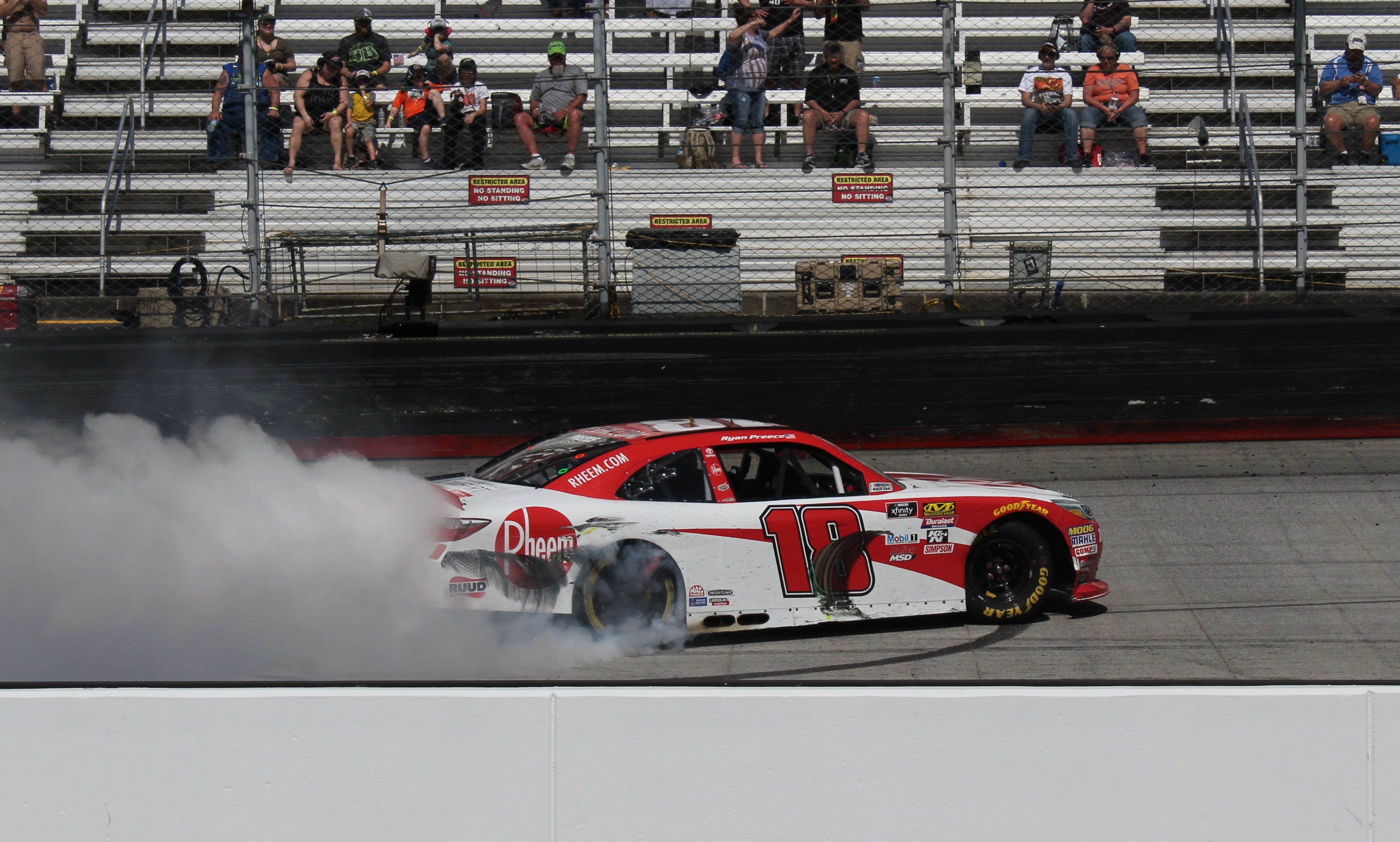 Ryan Preece performs a burnout after winning the Fitzgerald Glider Kits 300 at Bristol Motor Speedway in 2018.